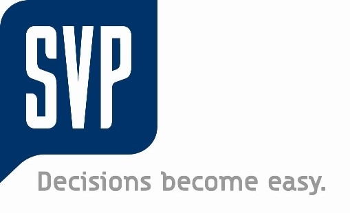 svp inc logo